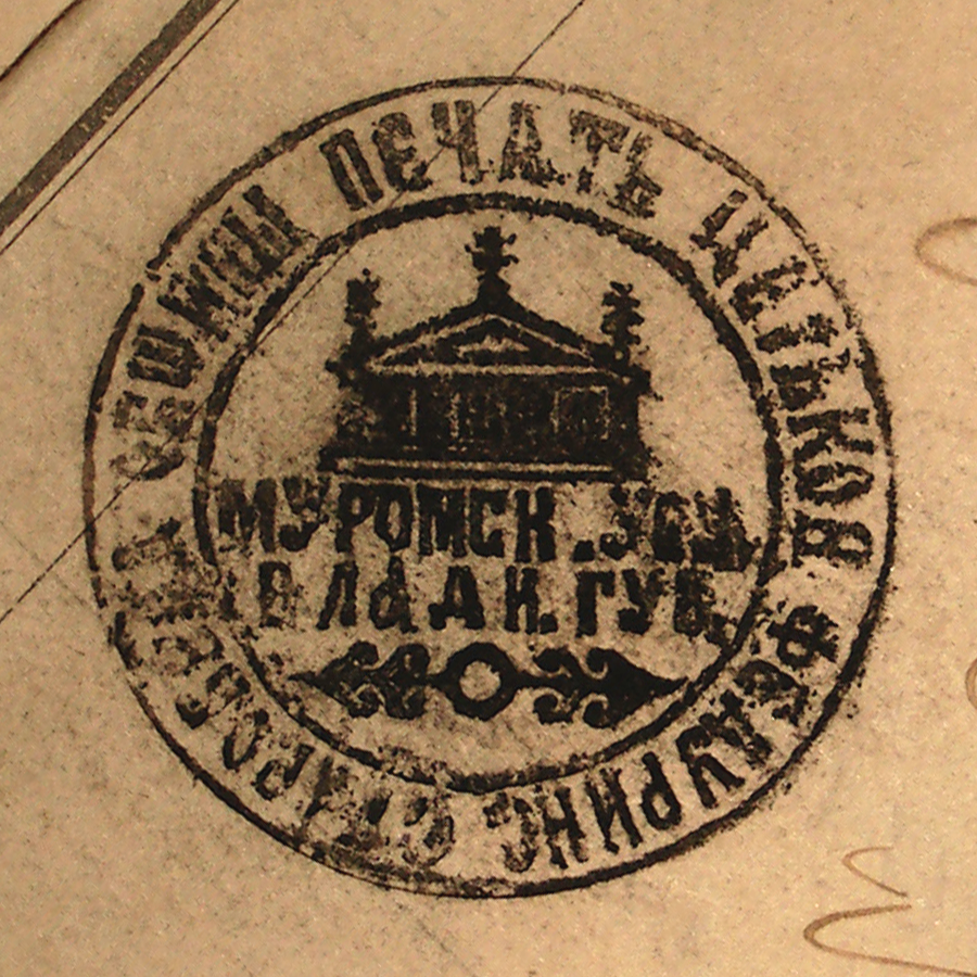 Print of Stamp Fedurino Old Believers Church